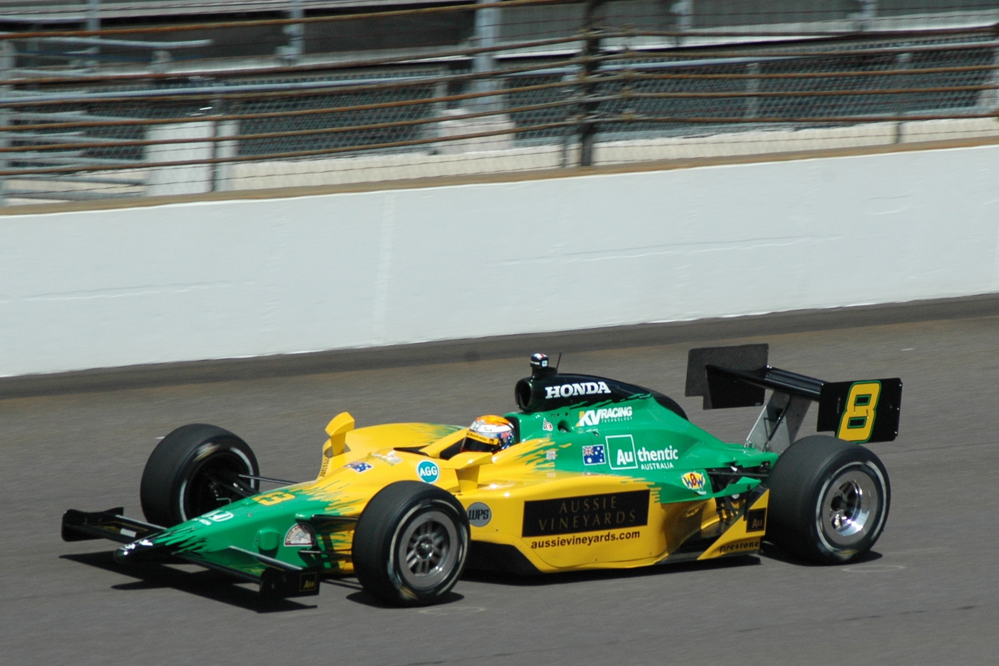 Will Power at Indianapolis 500 practice.